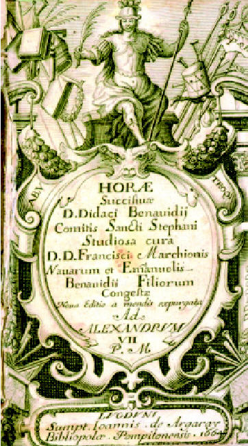 Front page of a text by Diego de Benavides y de la Cueva